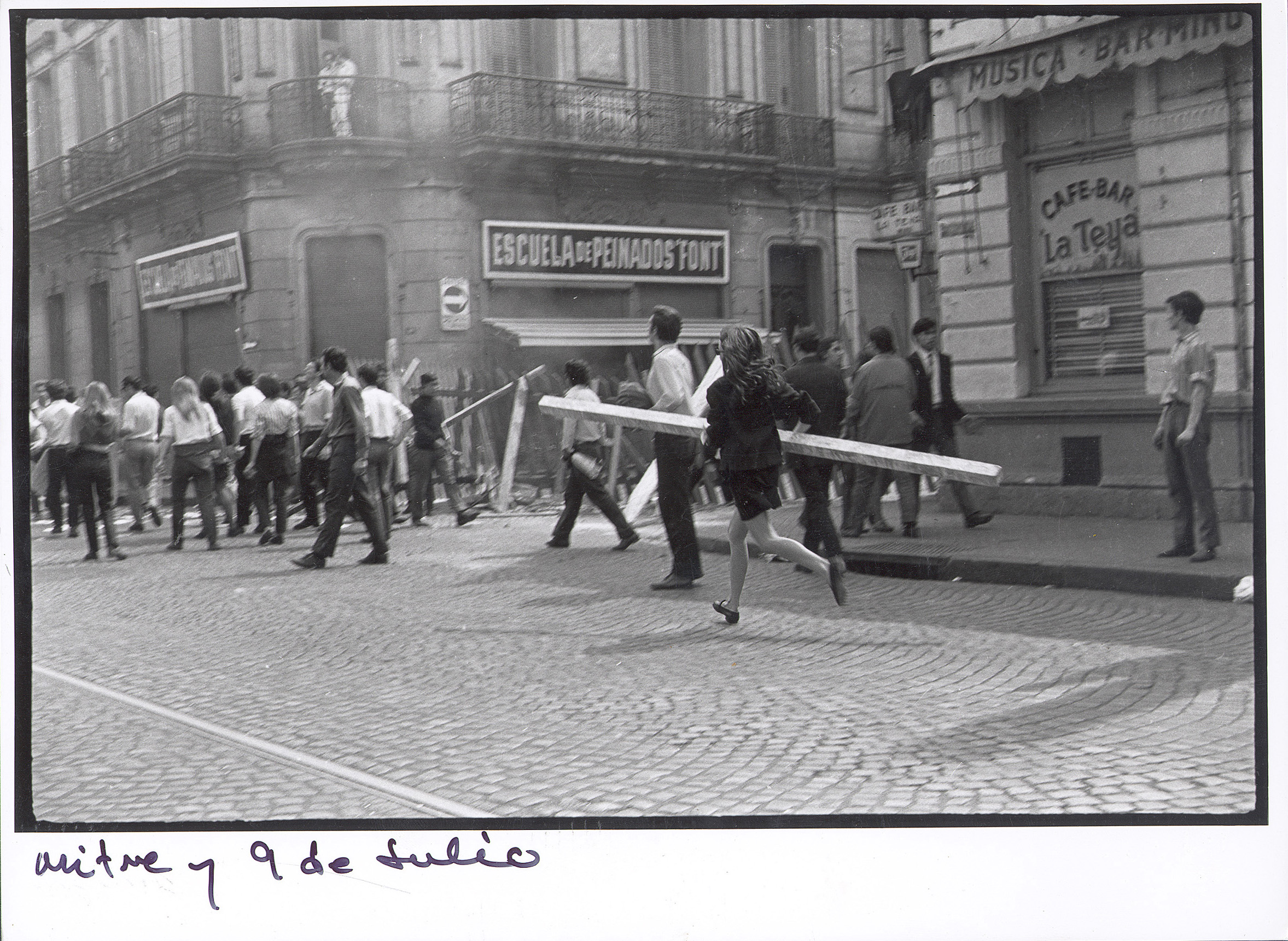 A nice picture of Rosariazo (May / September, 1969) taken by photographer Carlos Rosario Saldi.